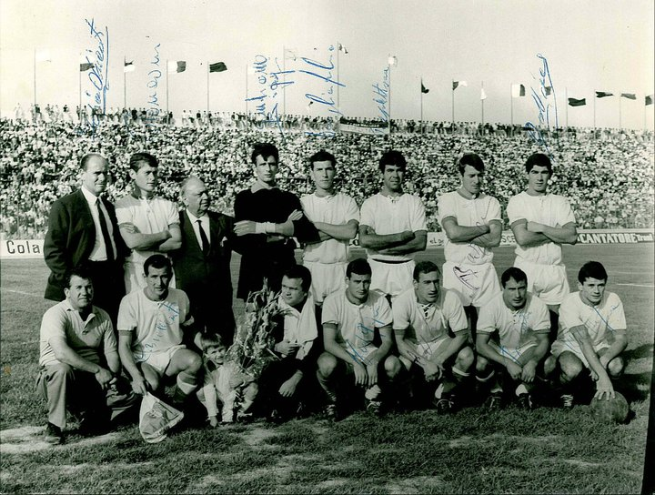 Unione Sportiva Calcio Trani, then known as Polisportiva Trani, in Trani Stadium, Italy, following its promotion to Serie B in 1964 (?).